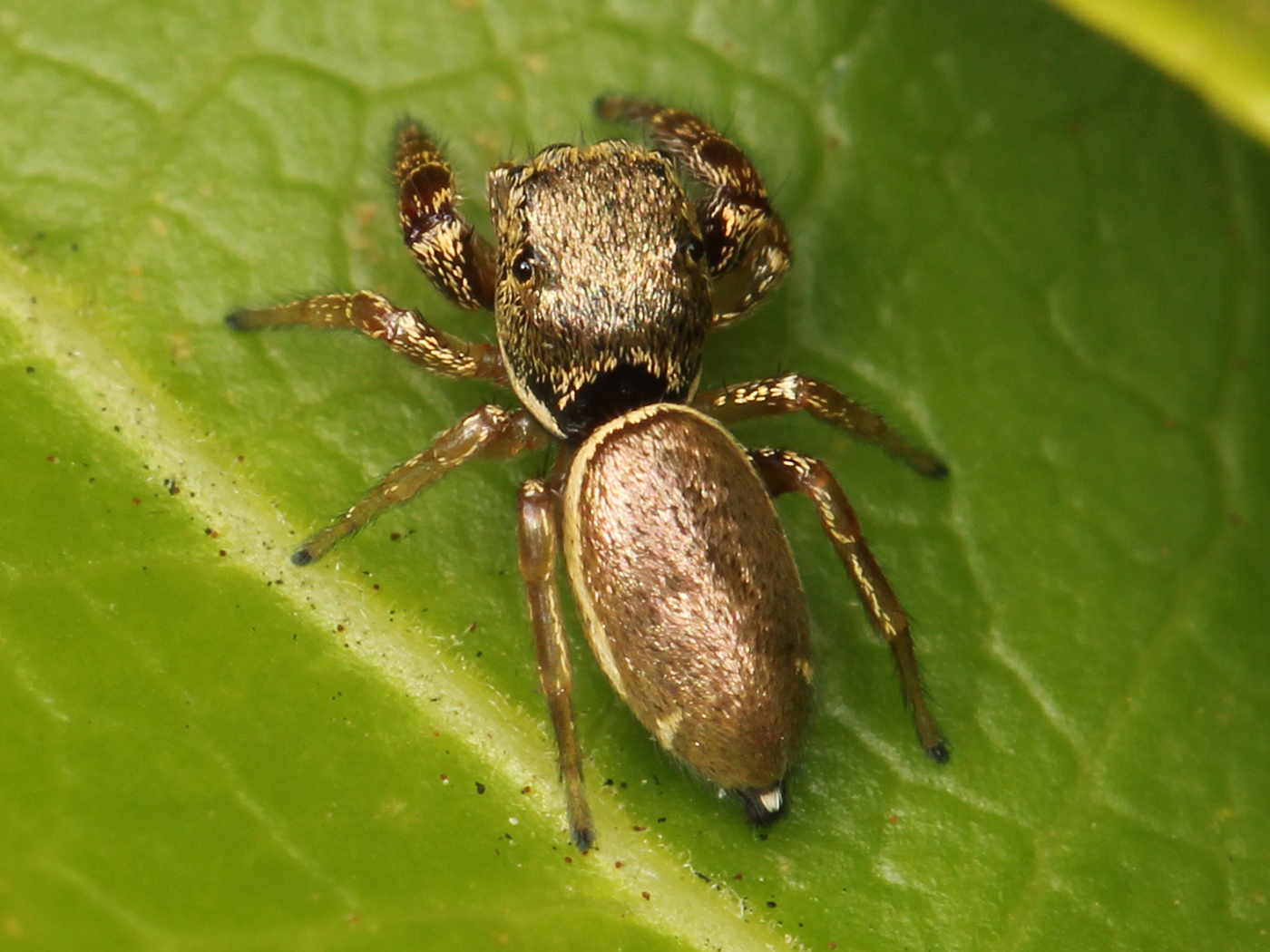 Adult female Sassacus vitis jumping spider from Richmond, California